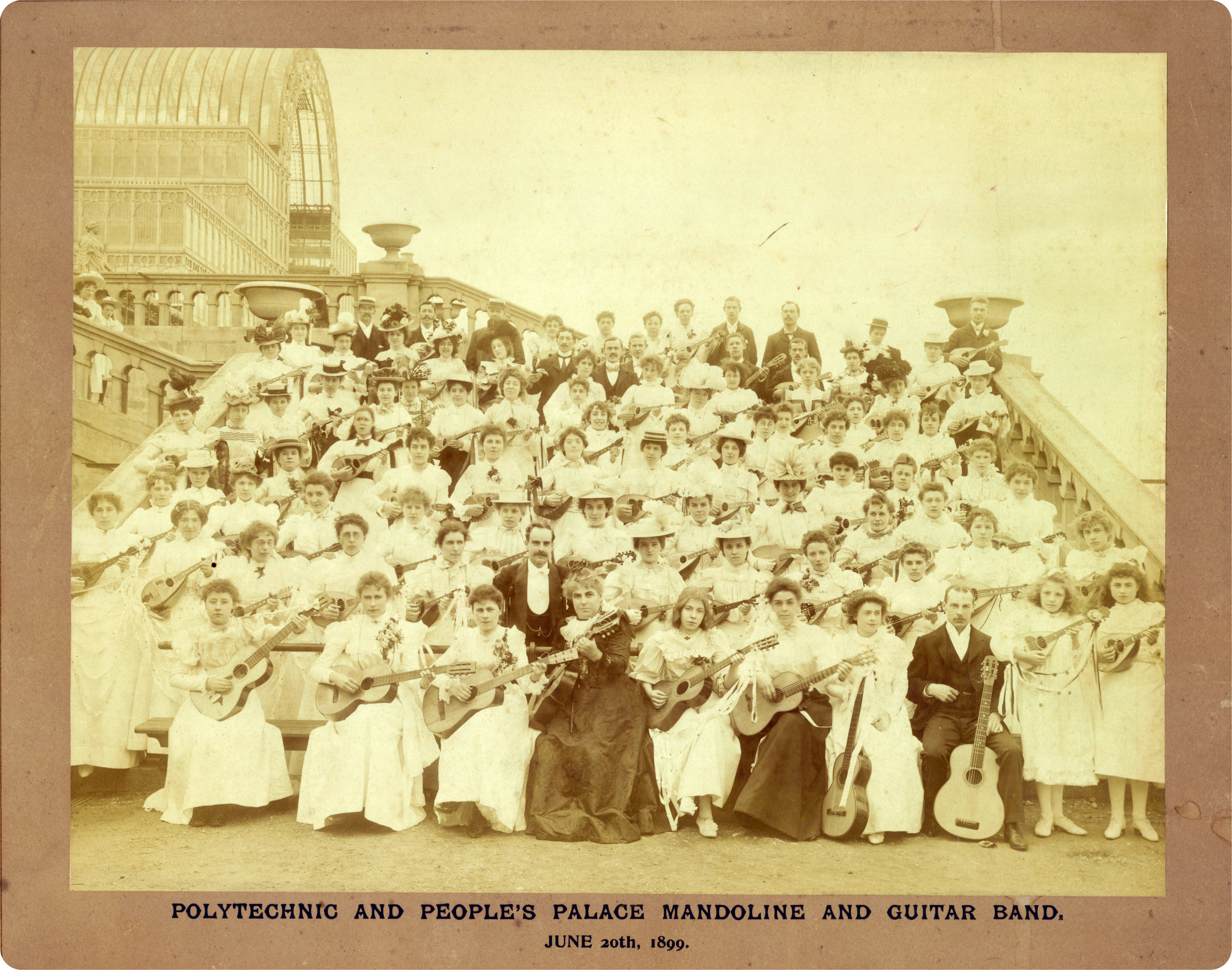 Ninety-two members of the Polytechnic and People's Palace Mandoline and Guitar Band sitting on the steps in front of the Crystal Palace, Sydenham, London on June 20, 1899. This file has been filtered in Adobe Photoshop to enhance contrast.